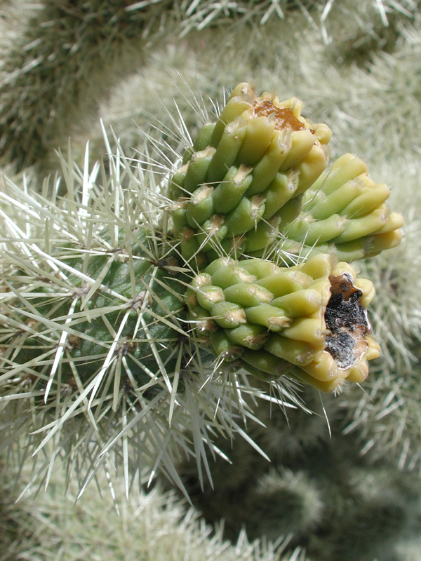 Fruit of Cylindropuntia bigelovii taken near Vulture Peak, Maricopa County, Arizona, USA